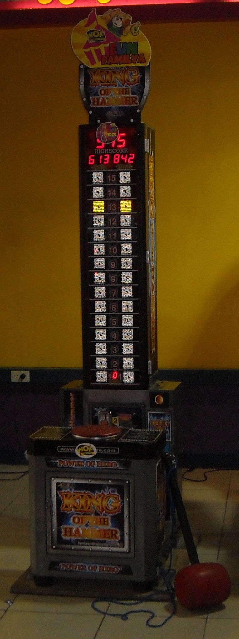 The same game as my first picture. Clearer.